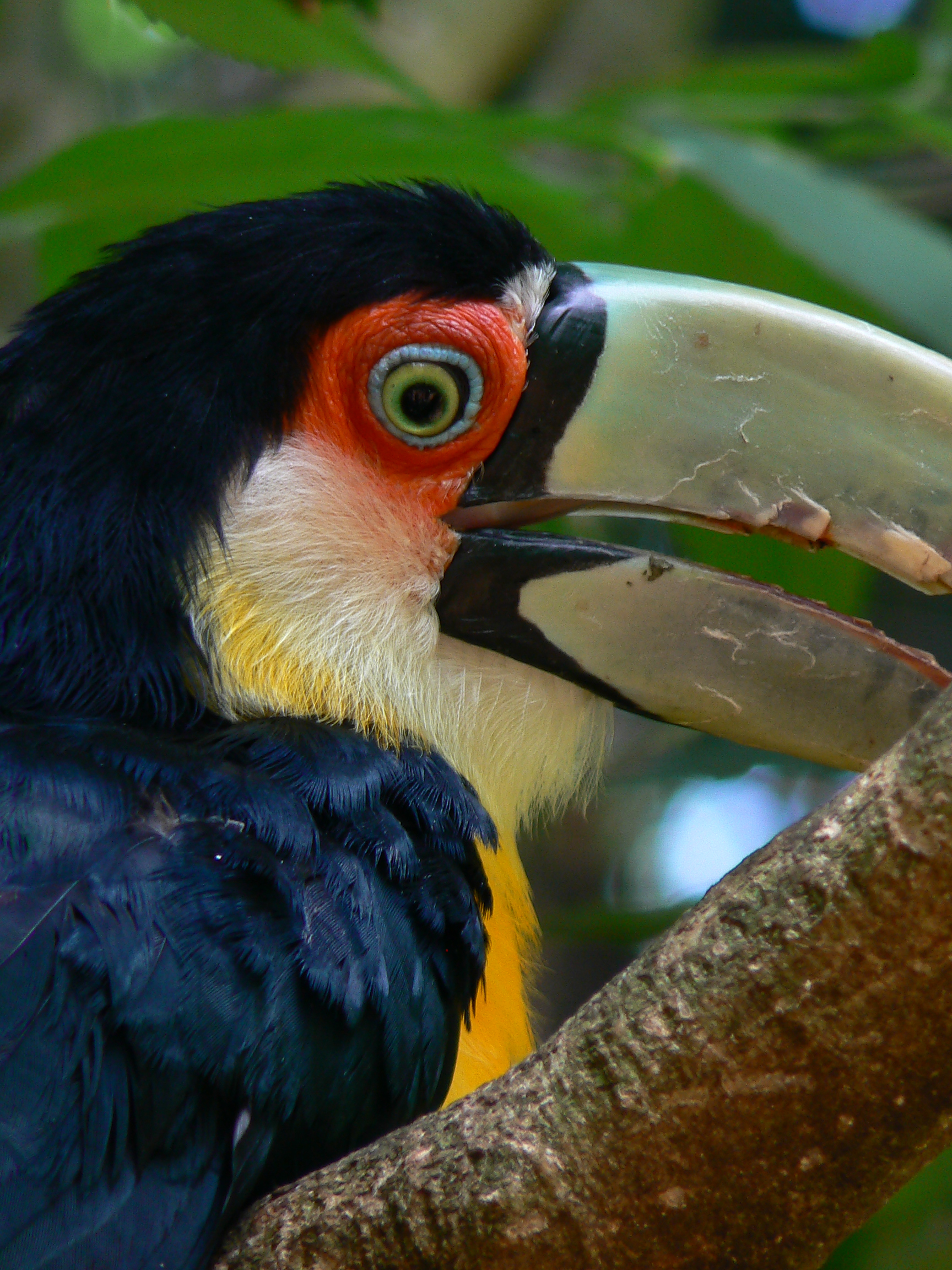 Red-breasted toucan in ParqueDasAves, Brasil